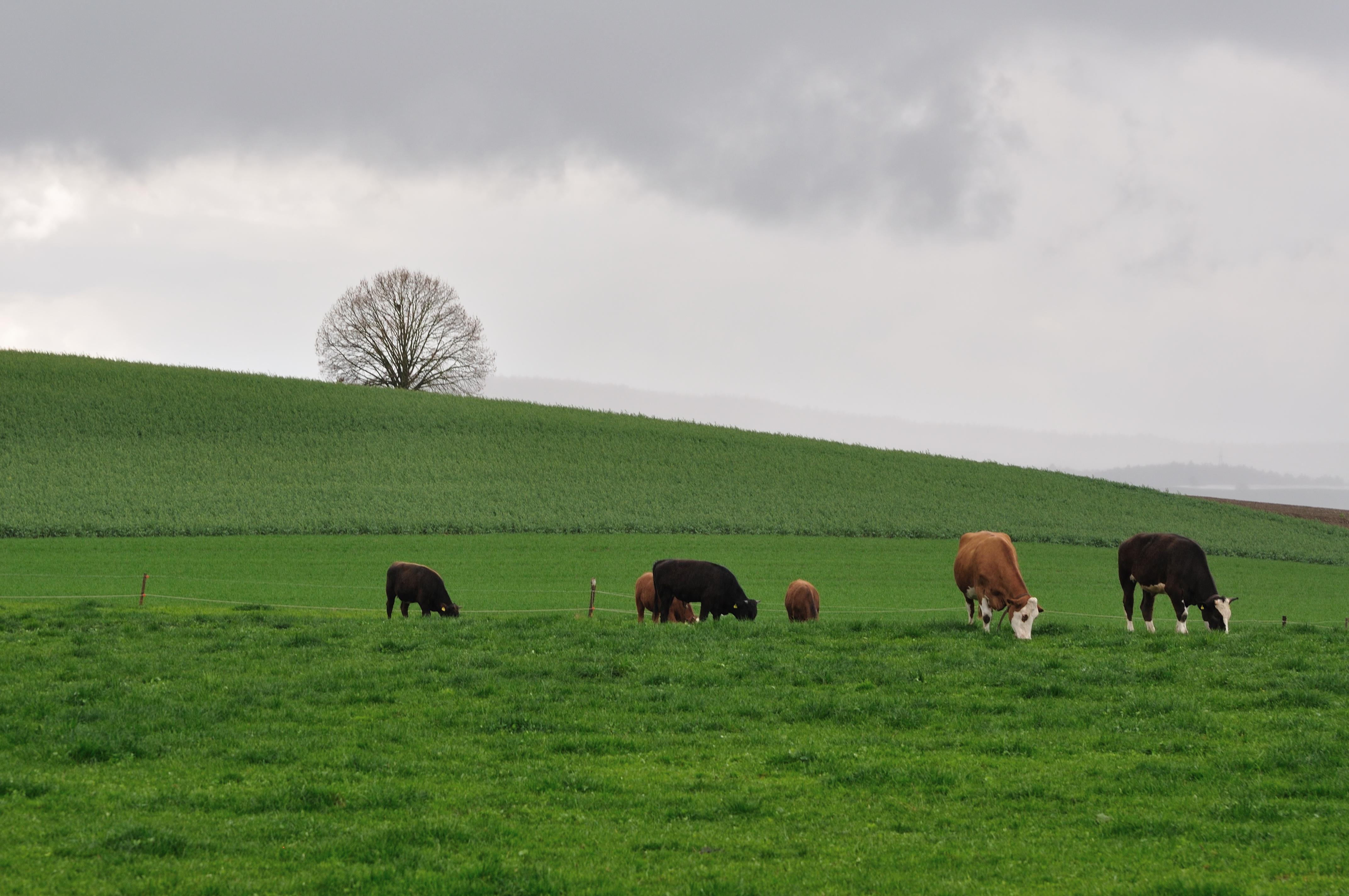 Switzerland, Canton of Zürich, spotting in the approach area of runway 14 of Zurich International Airport on a day with frequent showers.